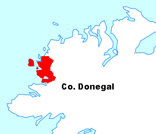 Location map of the The Rosses in Ireland